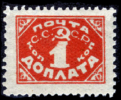 USSR postage due stamps, 1925, 1 k.